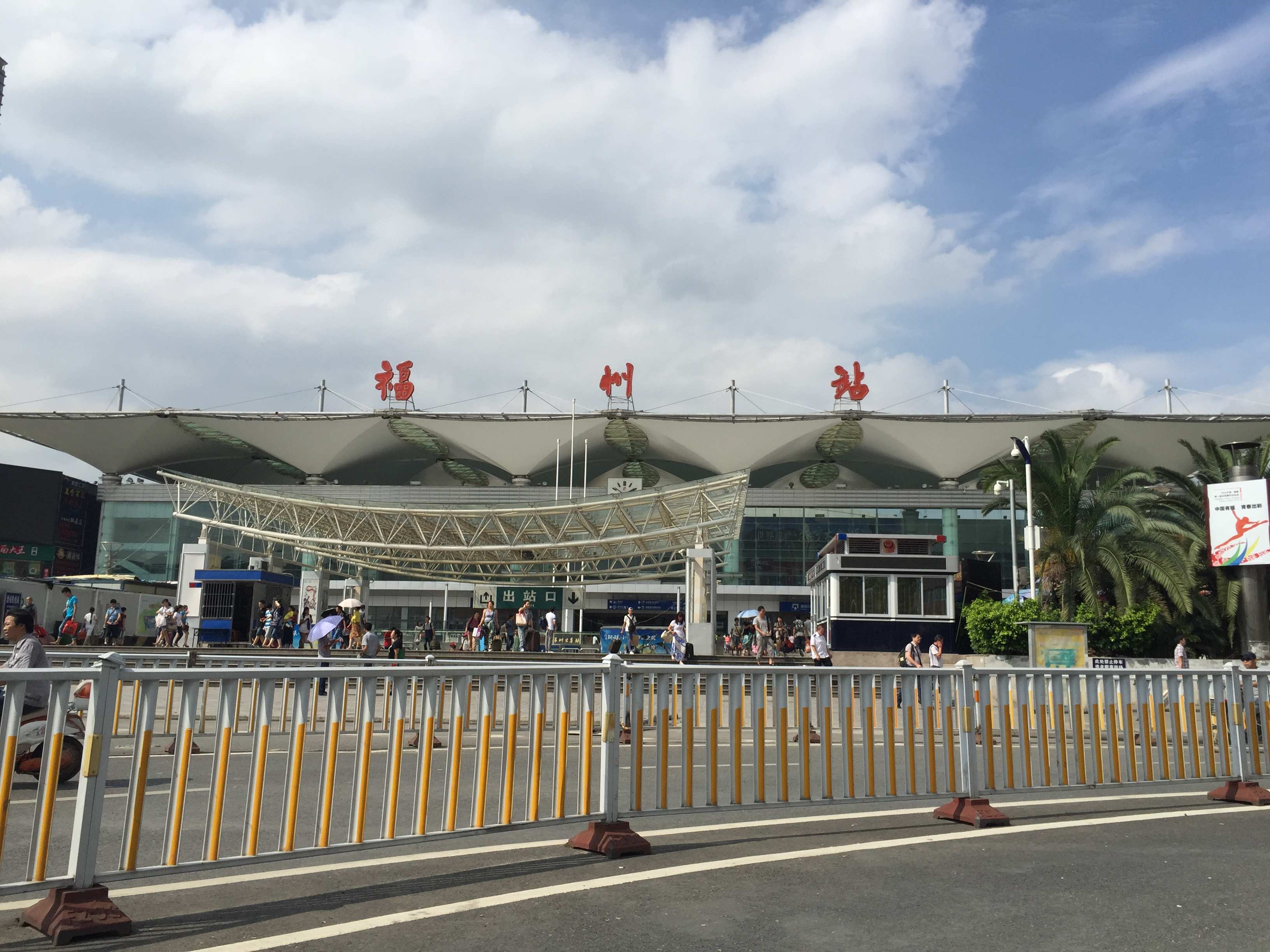 This is the south square...